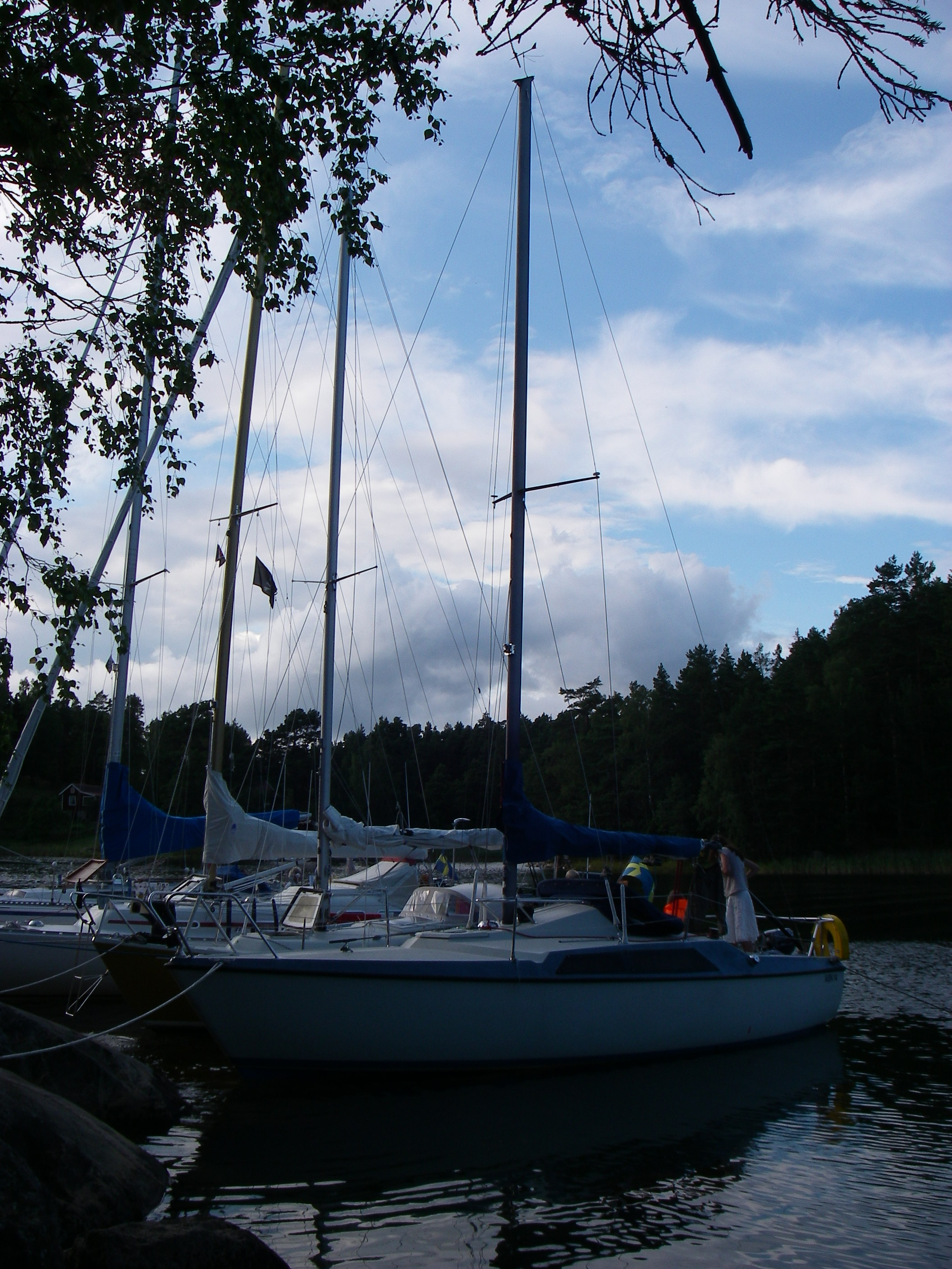 Sailboat Maxi 77 at Gällnö in Stockholms archipelago